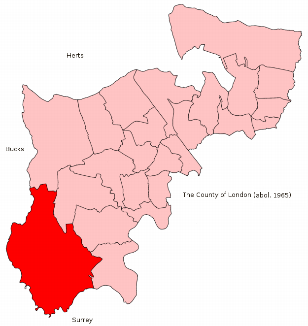 A map of Spelthorne constituency within Middlesex, as it existed from 1945 to 1950.